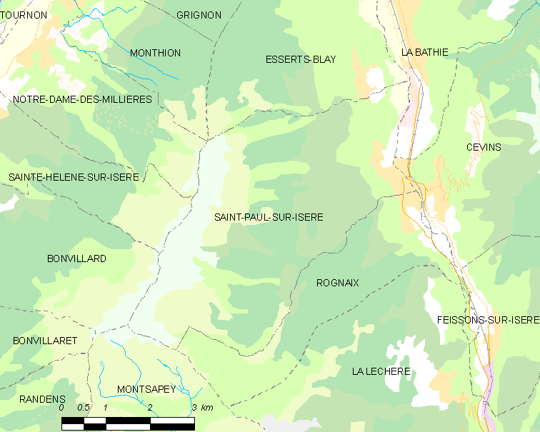 Map of French municipality Saint-Paul-sur-Isère